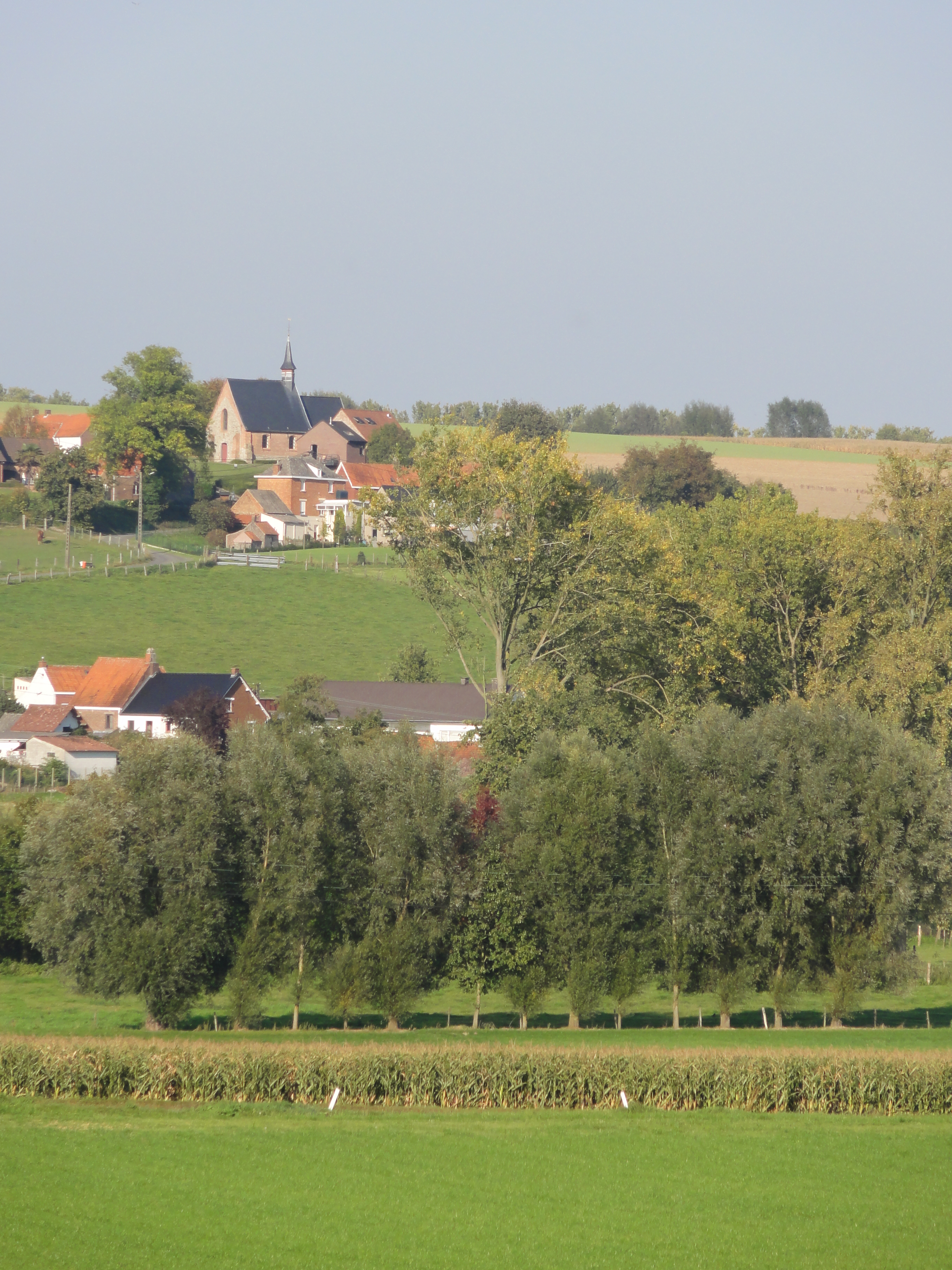 Kapelleberg hill, with the Sint-Vincentiuskapel at the top, in Maarke. Maarke, Maarke-Kerkem, Maarkedal, East Flanders, Belgium.